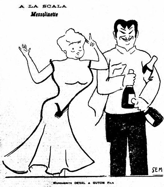 Caricature in "Le Figaro" of Marguerite Deval and Charles-Alexandre Guyon